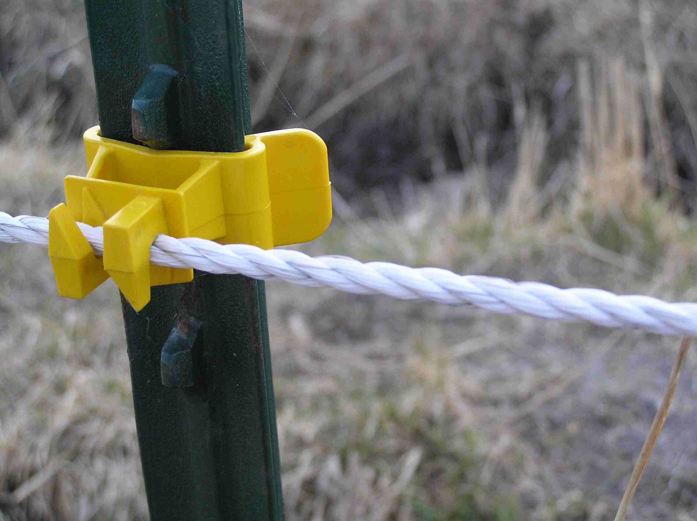 Close up of a type of electric fencing for horses that incorporates metal with synthetic cord to create a safer and more visible fence.